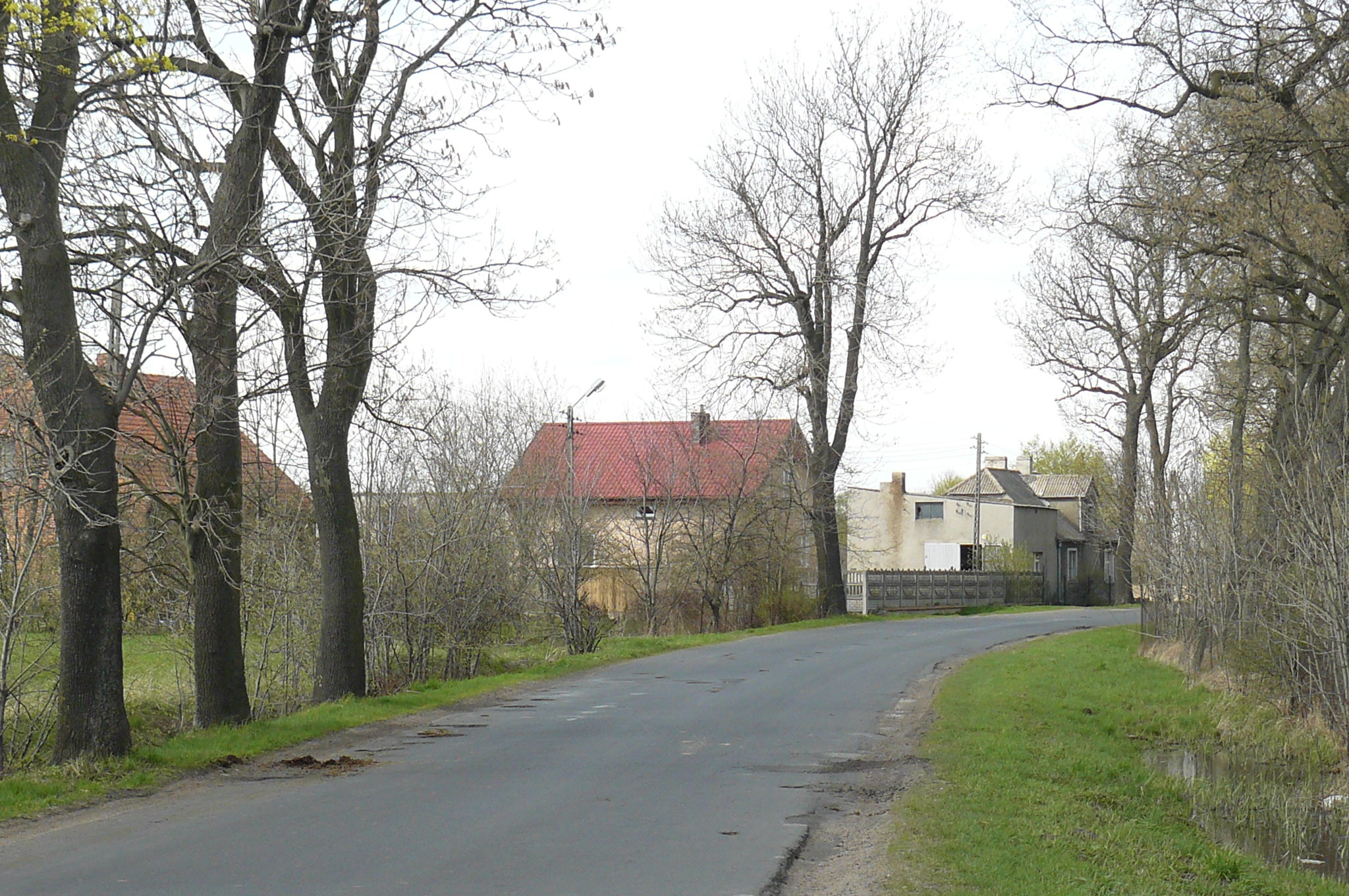 Klony, PL.